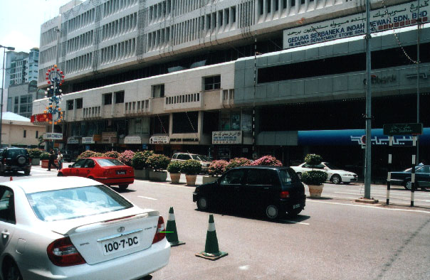 Street (Jalan Sultan) in Bandar Seri Begawan, Brunei.